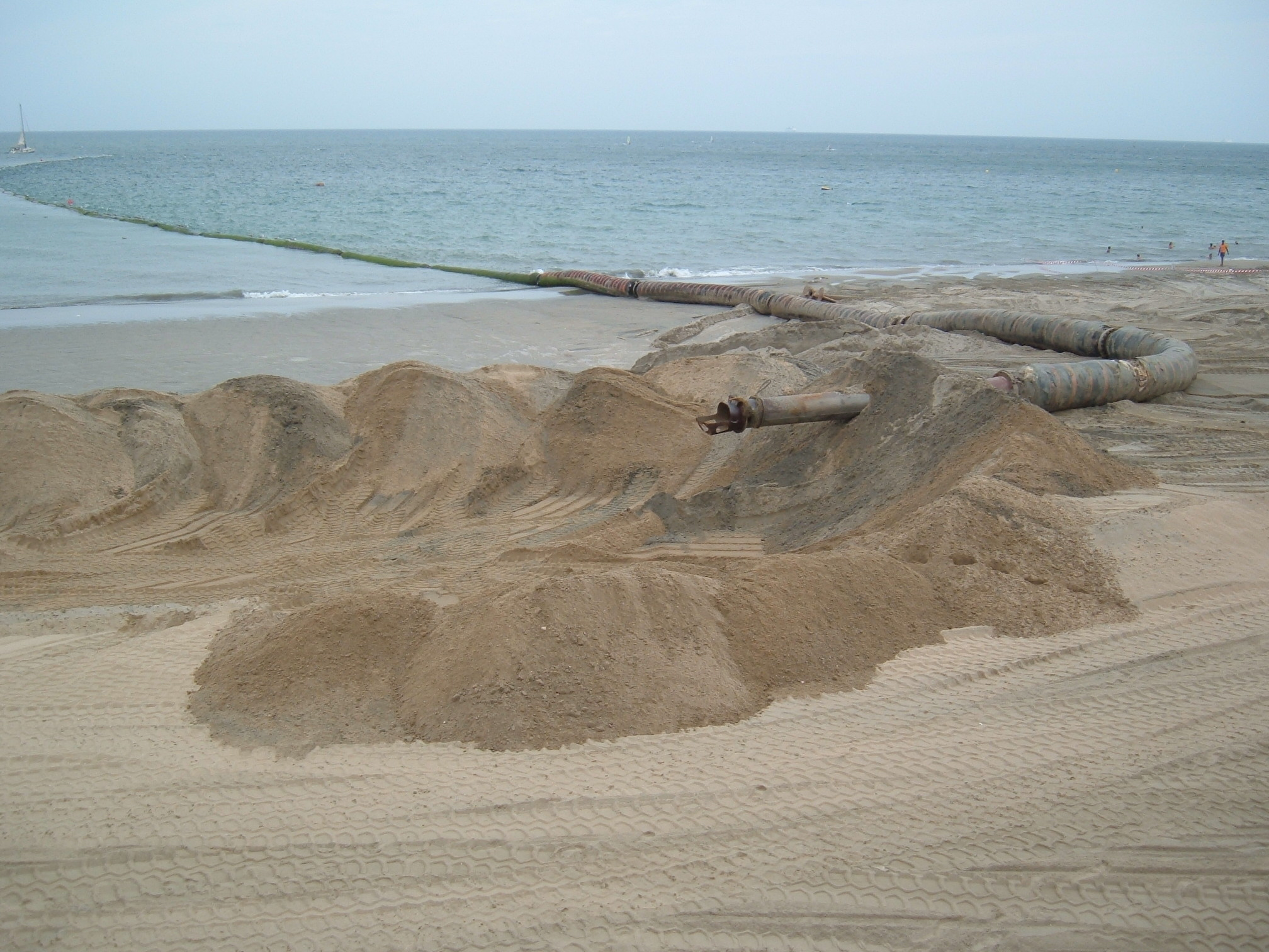 Beach nourishment device (not currently operating) in Barcelona, Spain